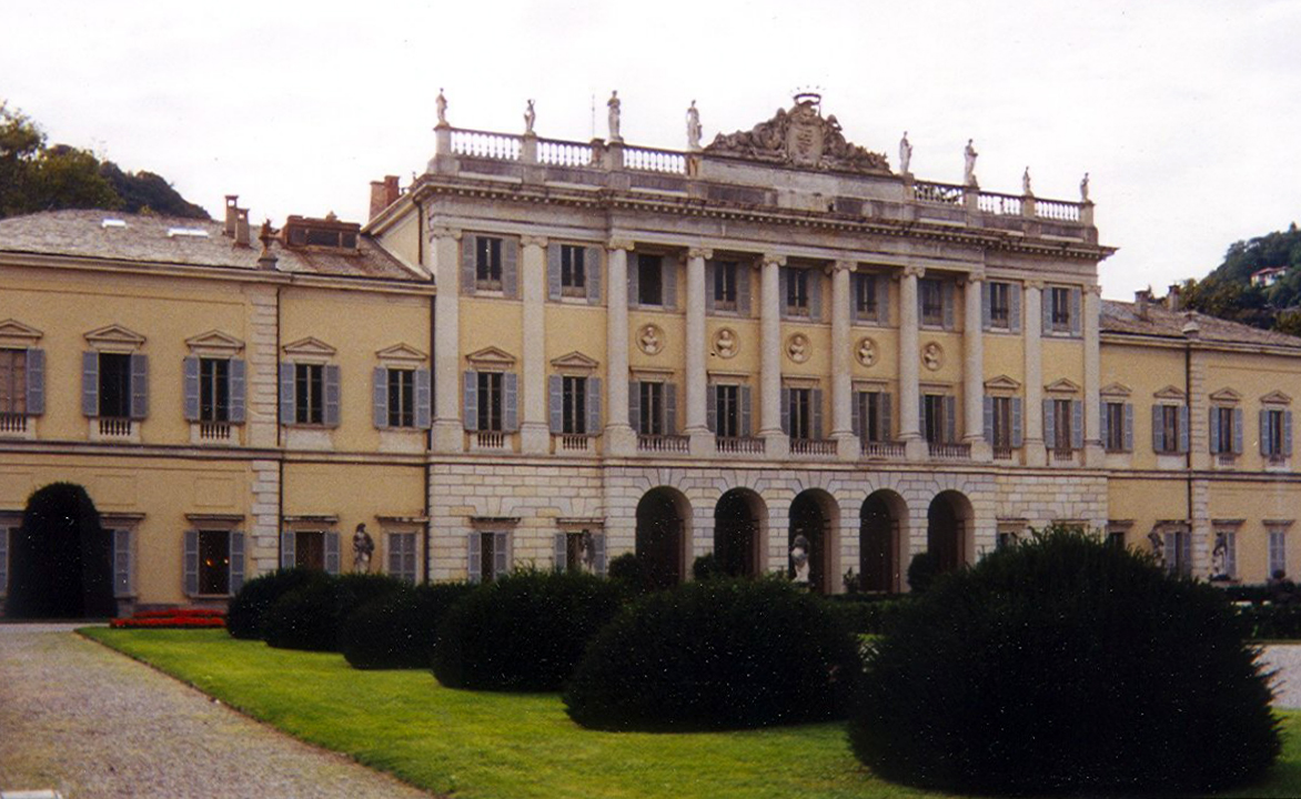 Villa Olmo palace on lakefront, Como, Italia. Photo by Infrogmation, 1999.